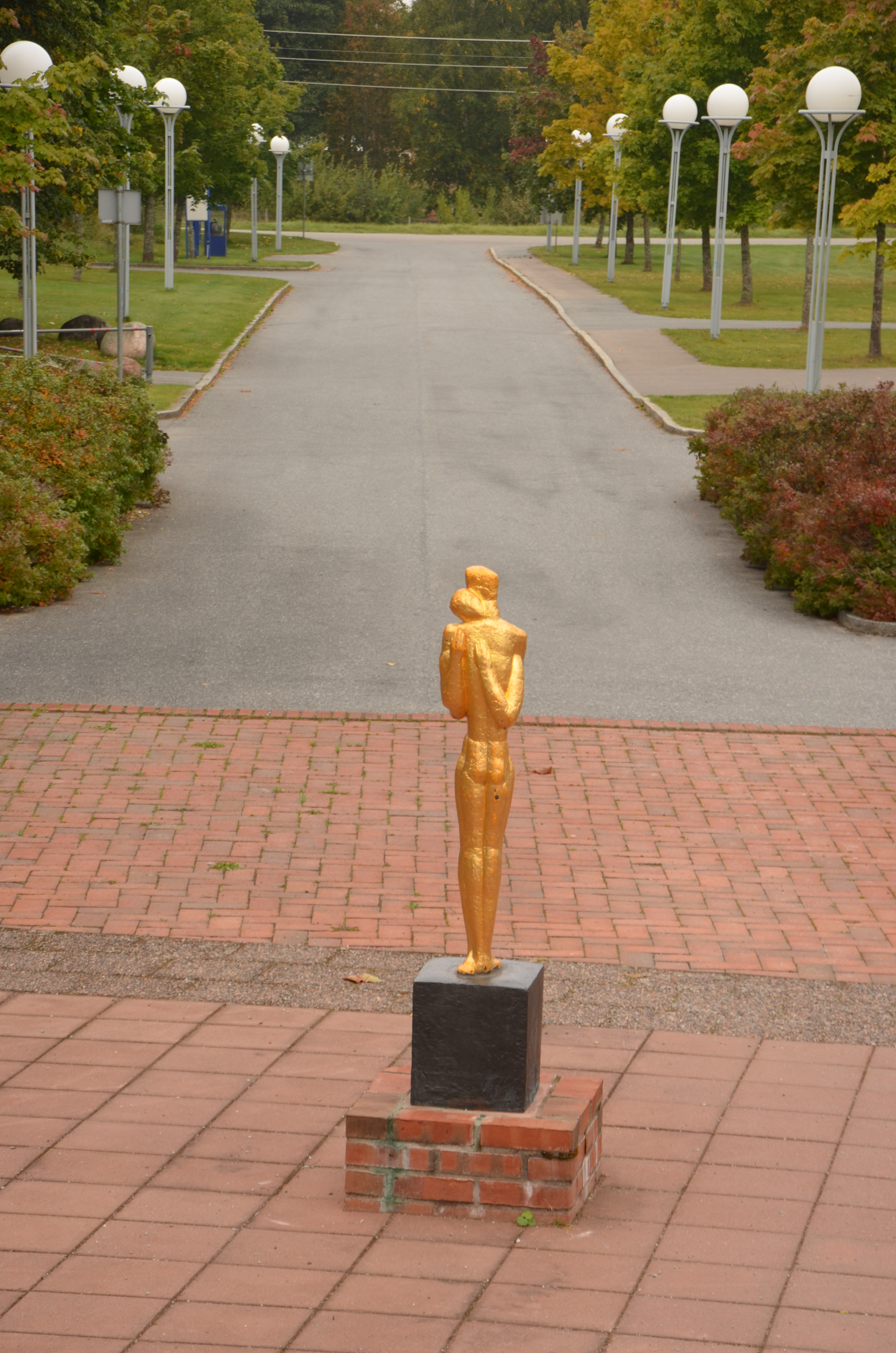 Duo II av LIss Eriksson i Hällefors This reproduction of an architectural work or work of art, is covered under the Swedish law of copyright for literary and artistic works (Law 1960:729, paragraph 24), which states that "Work of art may be depicted if it is permanently placed on or at a public place outdoors. Buildings may be freely depicted." See Commons:Freedom of panorama#Sweden for more information.